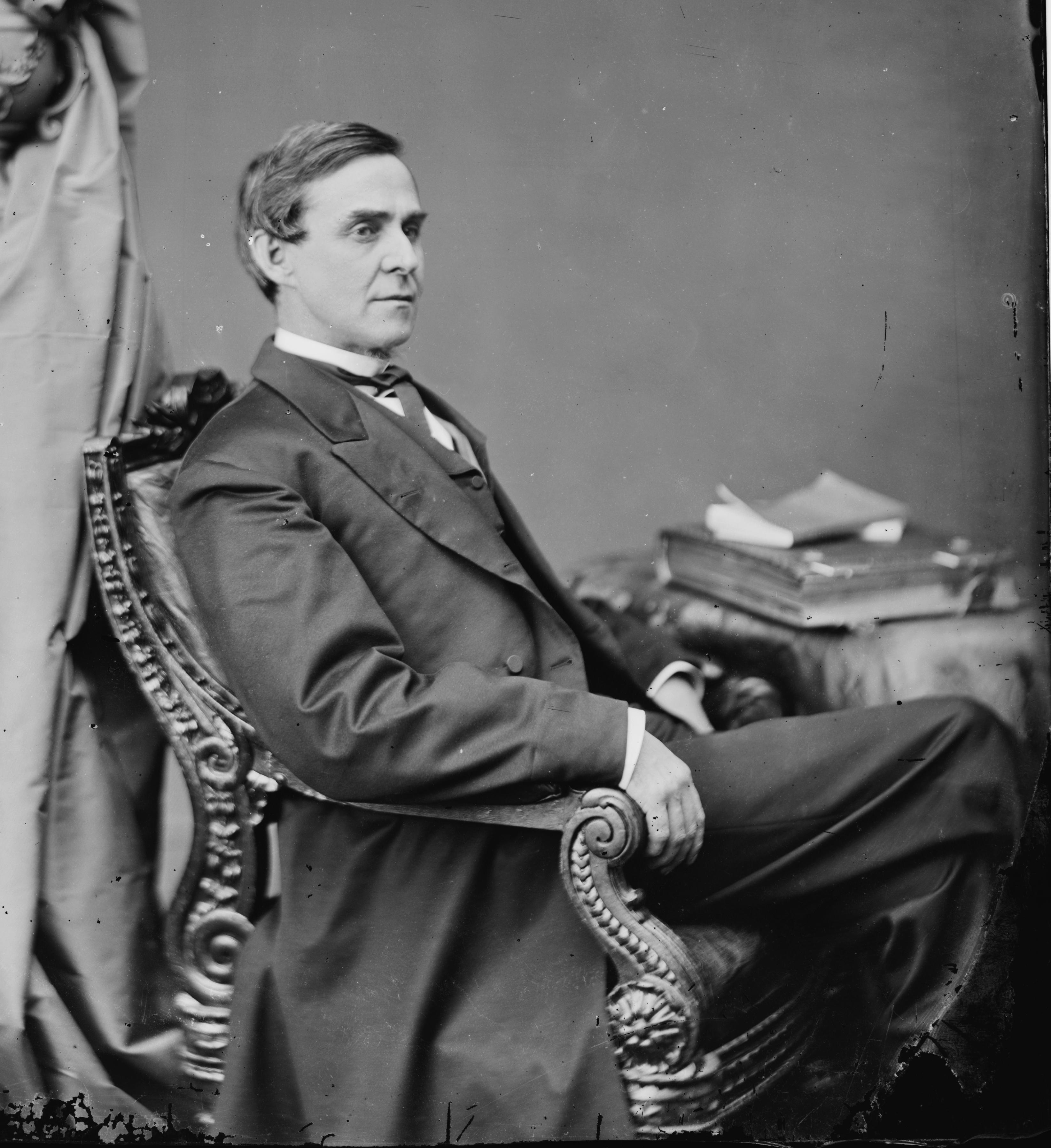 Charles R. Buckalew. Library of Congress description: "Hon. Charles Rollin Buckalew of Pa."